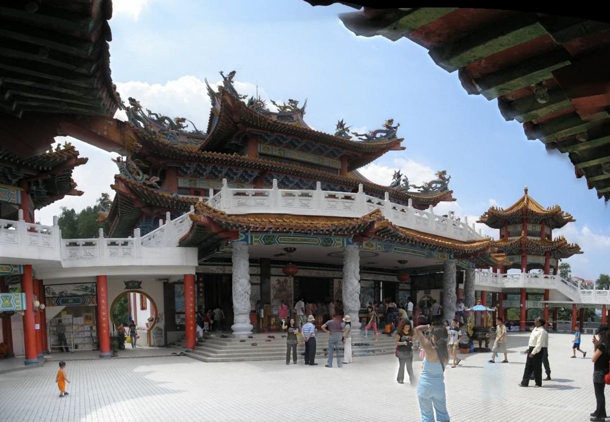 The Thean Hou temple in Kuala Lumpur.